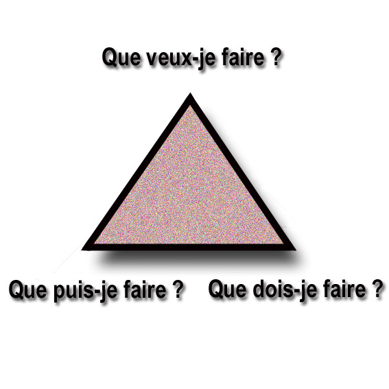 ethics's triangle